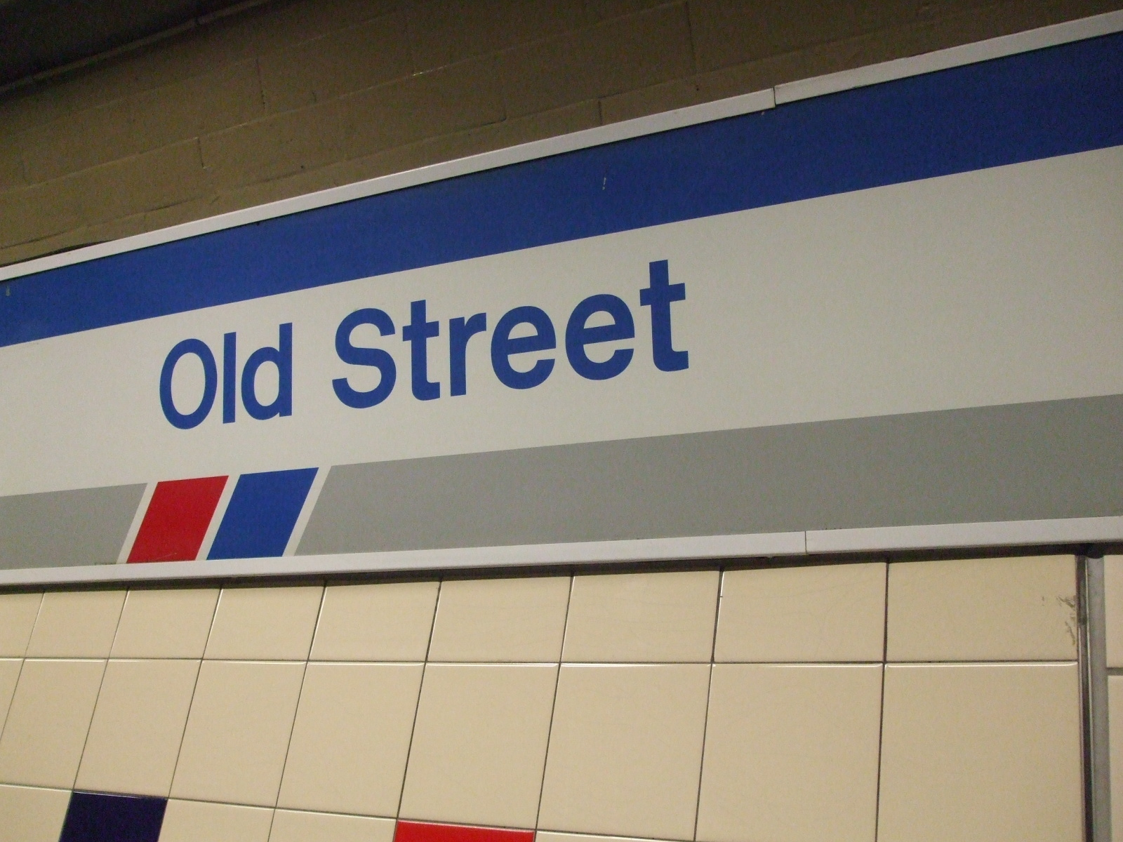 Old Street station Great Northern (now operated by First Capital Connect) platform signage, in the style of Network SouthEast from the 1980s.